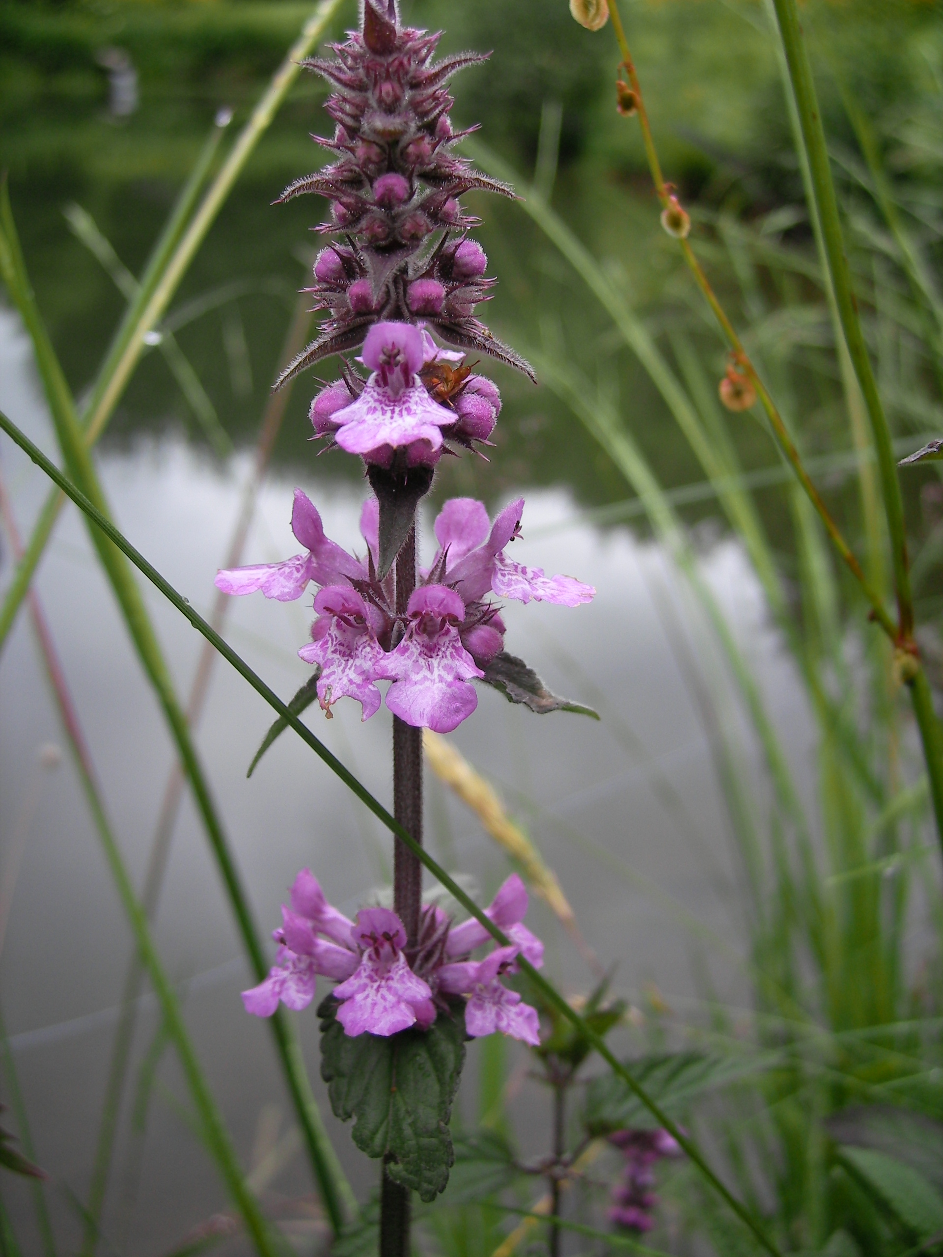 Flower, Stachys palustris